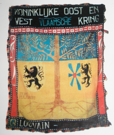 flag of the vlavla